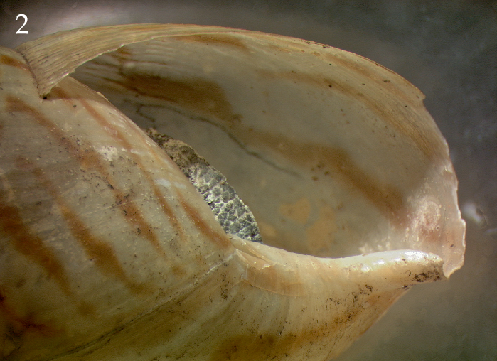 Photo of the aperture of the holotype of Achatina vassei.